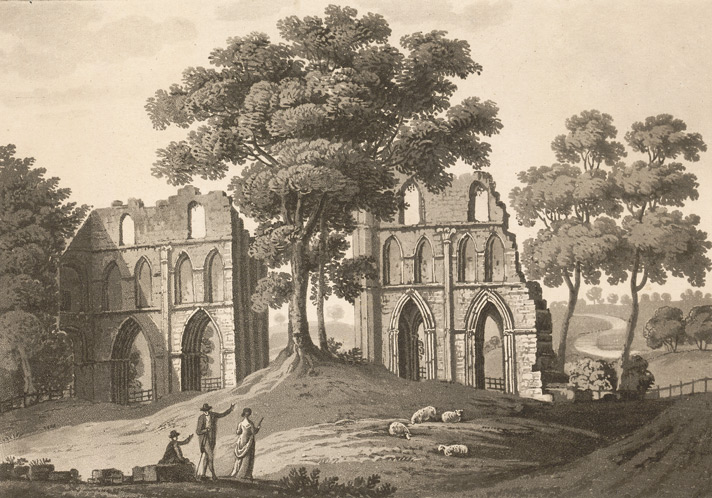 View of one of the ruined transepts at Roche Abbey in Yorkshire by T. Cartwright, aquatint, dated 1807. Courtesy of the British Library, London.